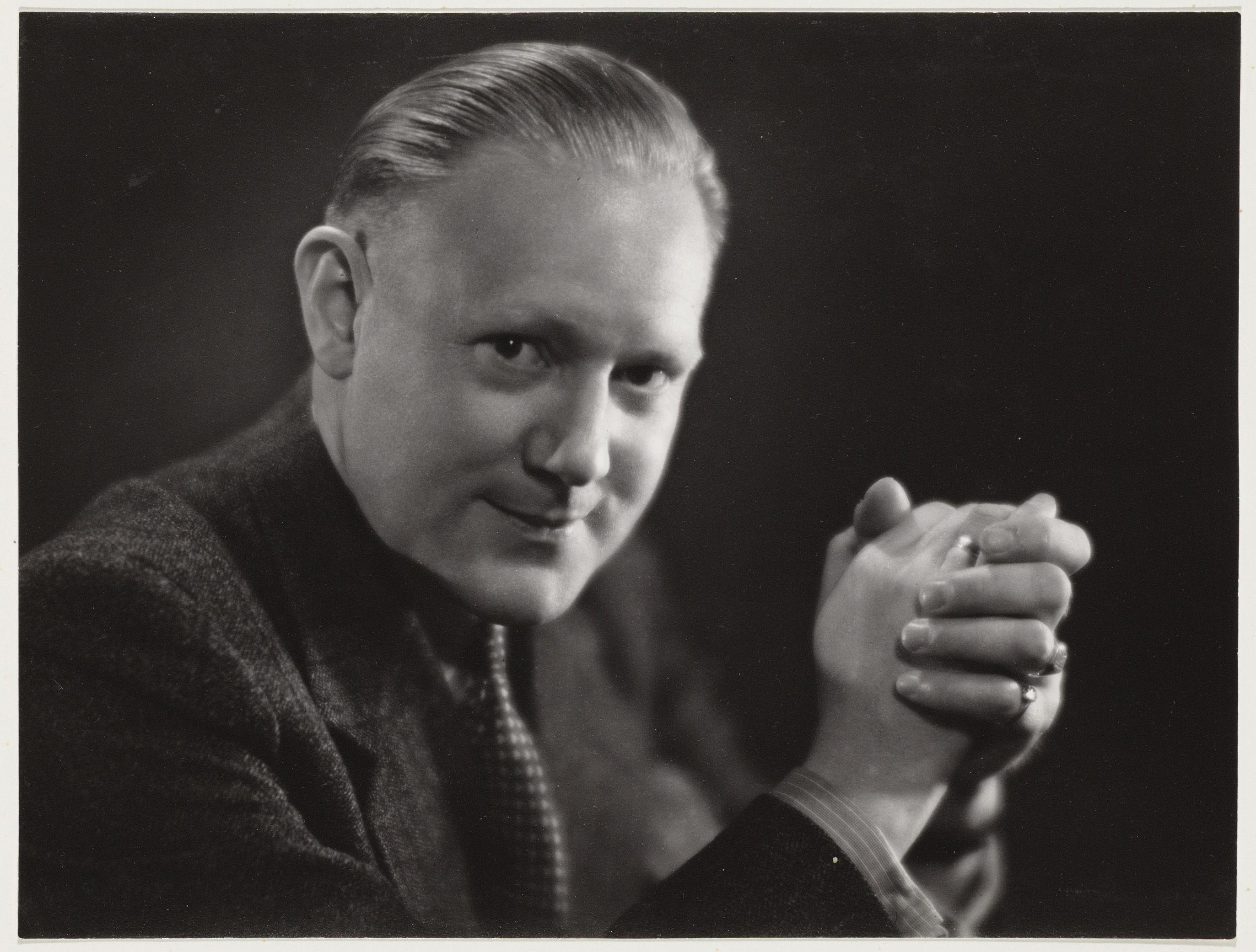 Photograph of Kommer Kleijn by Jacob Merkelbach (1877-1942)